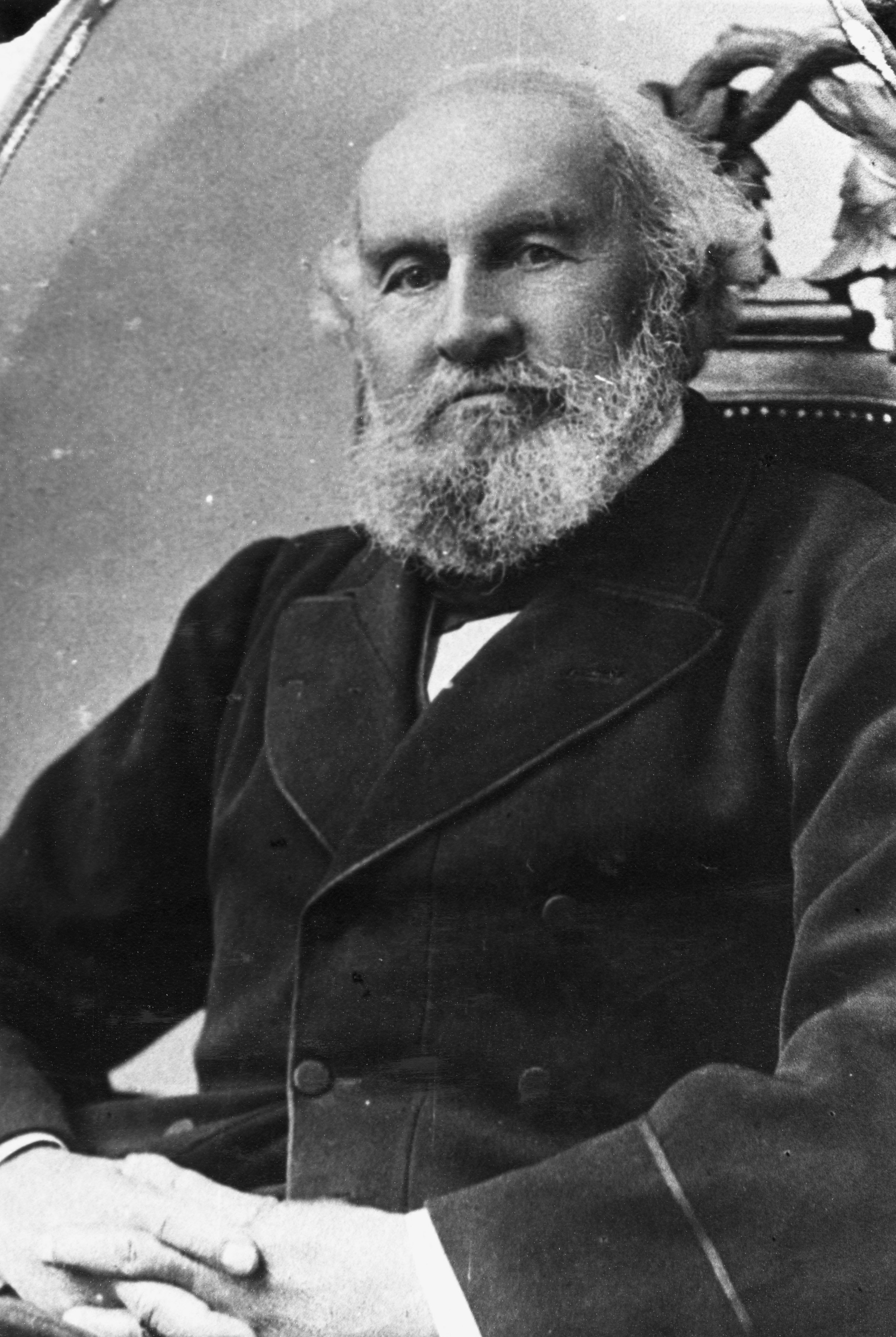 William Montgomery, circa 1876. Photographer unidentified.